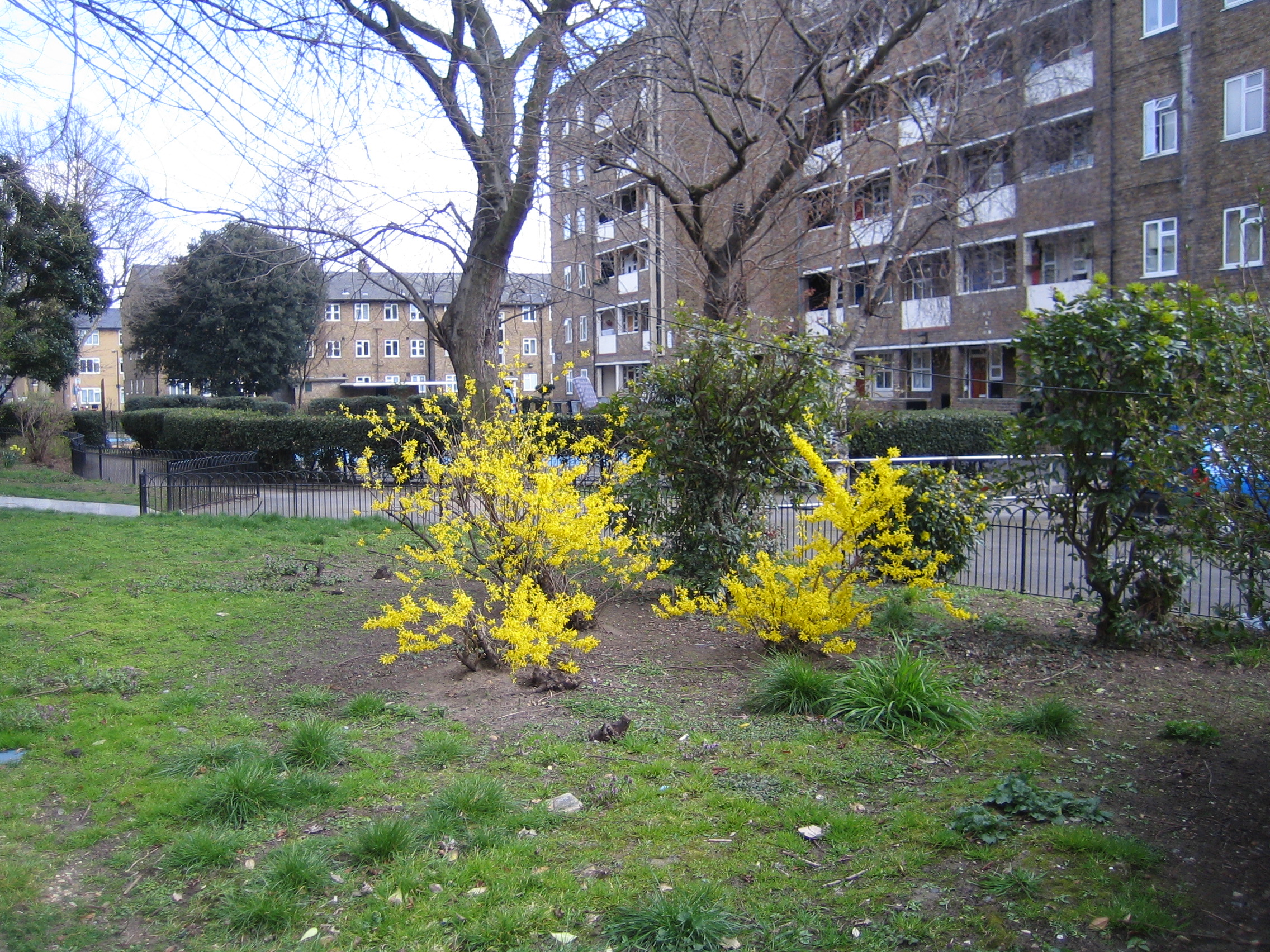 Urban blooms, Lansbury Estate, East London, UK